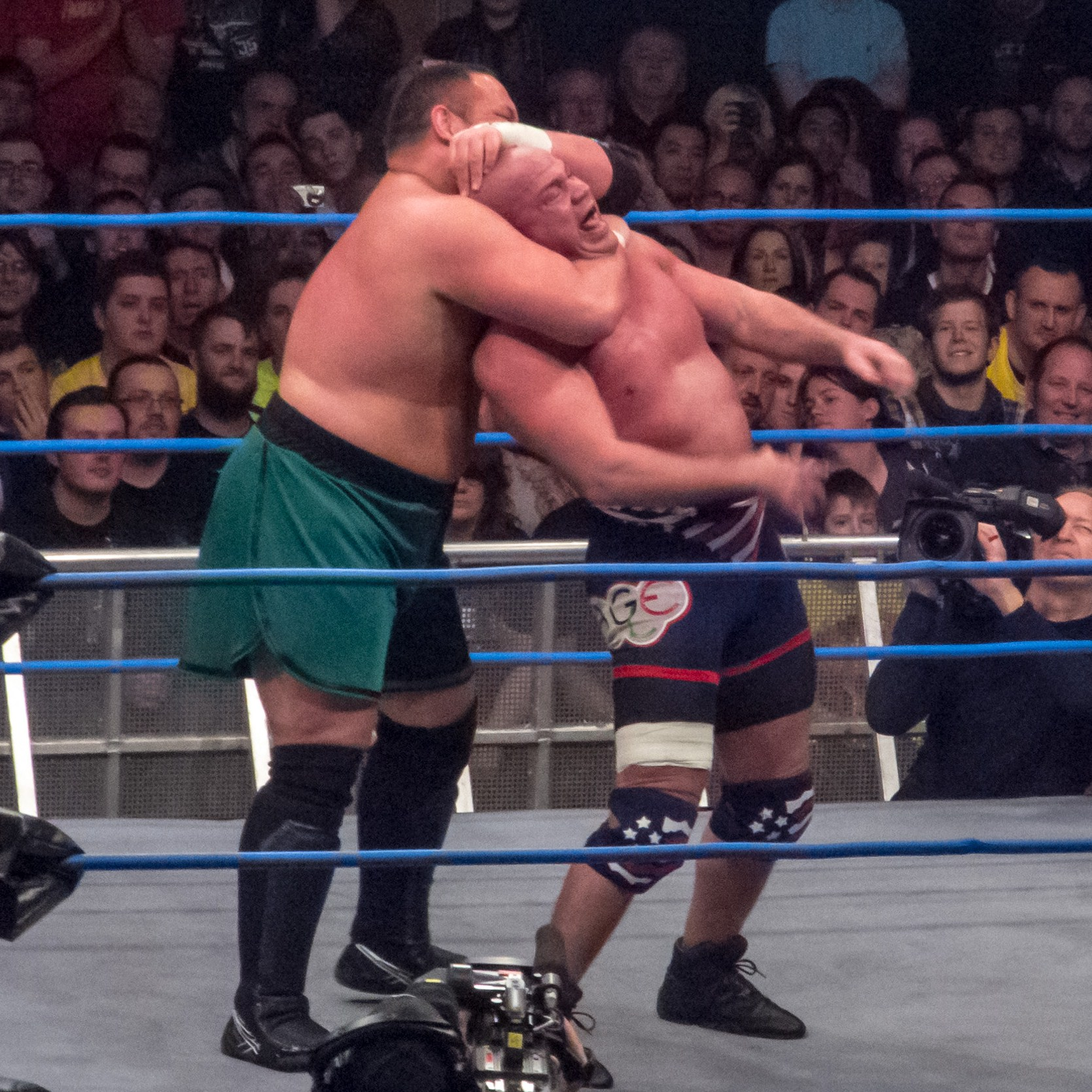 Samoa Joe puts a rear naked choke on Kurt Angle at the Impact! TV Tapings in Wembley, England on January 26, 2013.